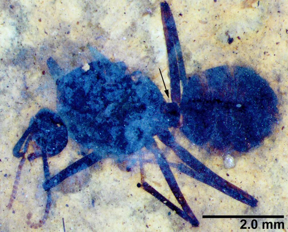 Dorsal view of the Eoformica brevipetiola holotype worker Lutetian, Middle Eocene; Kishenehn Formation; Middle Fork of the Flathead River, Montana. United States. US Natural History Museum, Washington D.C., United States; specimen USNM609610